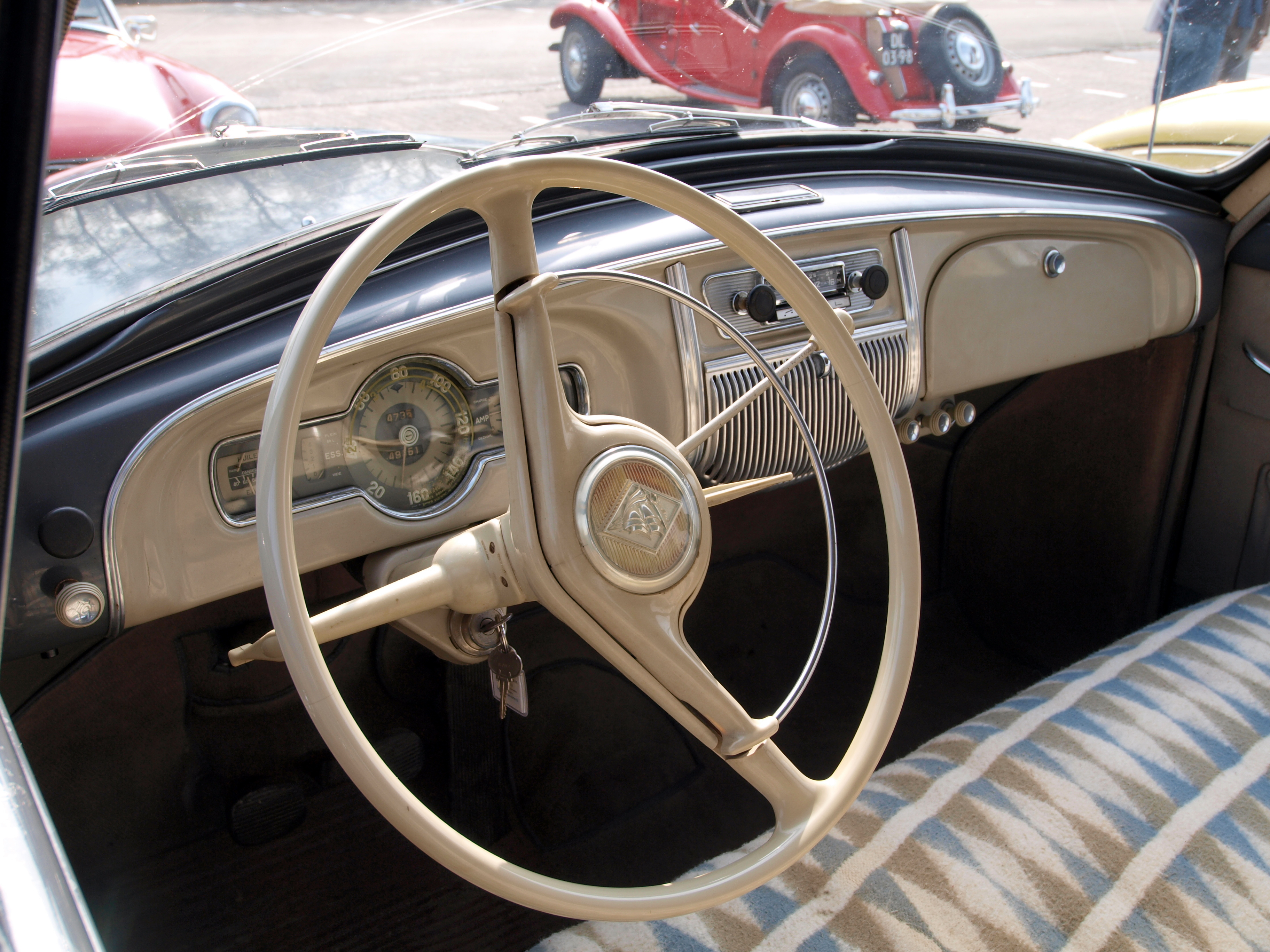 Cars and motorcycles photographed at the Voorschotense Oldtimer Vereniging Show, Valkenburgse meer, The Netherlands. OLYMPUS DIGITAL CAMERA